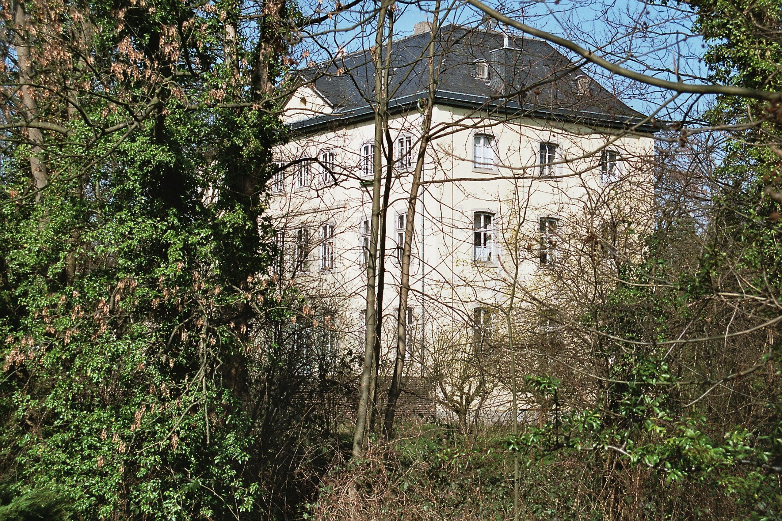 Sechtem (Bornheim), the gray castle